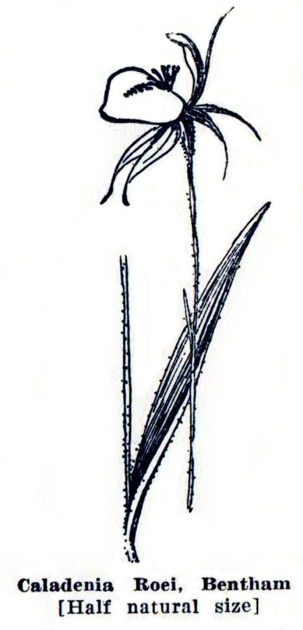 Caladenia roei, Image from Gutenberg version of Emily Pelloe: "West Australian Orchids", page 53